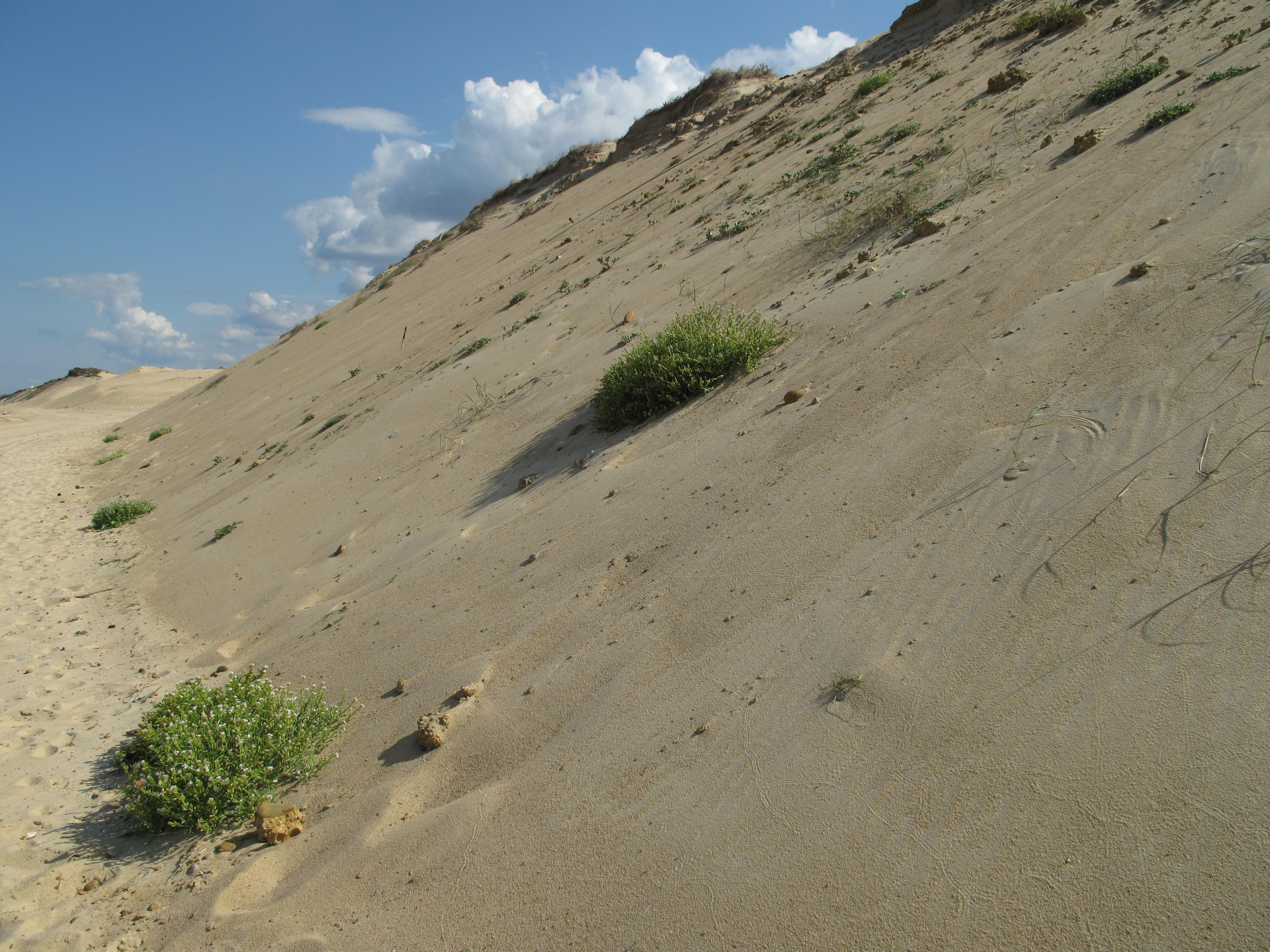 Cakile maritima on the slope of the dune in the south of Capbreton, Landes, France